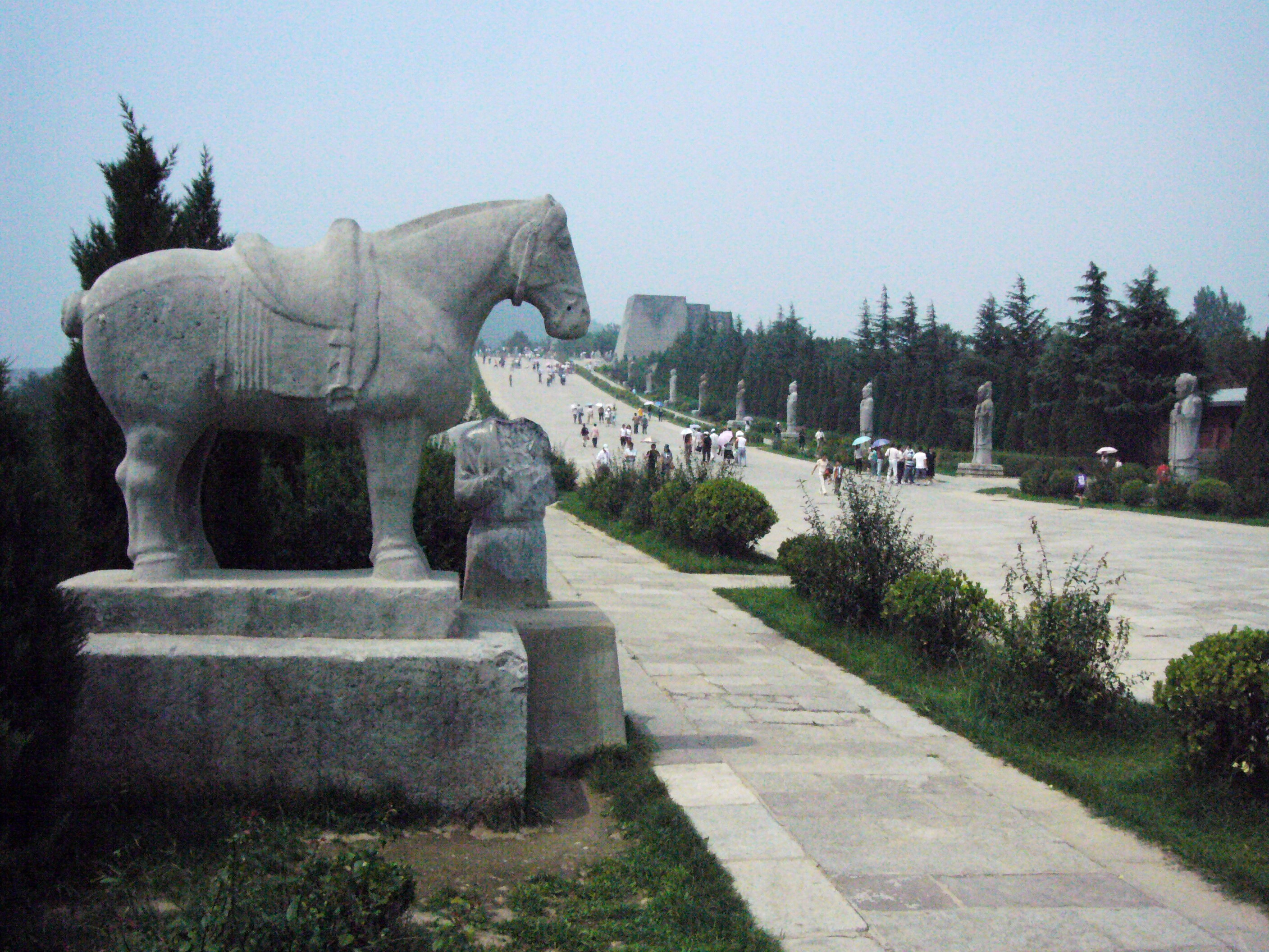 The Imperial Mausoleum of Tang Gaozong in Xi'an